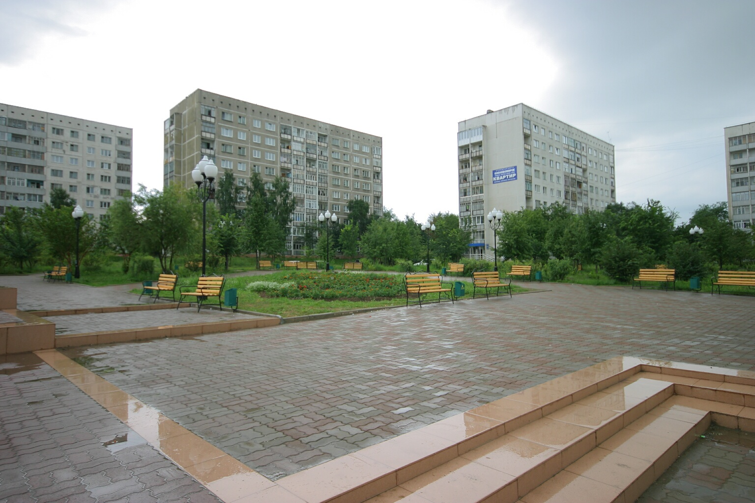 Square with a fountain near the House of Culture "Mechta (Dream)" in Sosnovoborsk, Krasnoyarsk Krai. In the background, from left to right, 9-storey residential buildings: Entuziastov st., 15; Leninsky Komsomol st., 9, 11, 13.